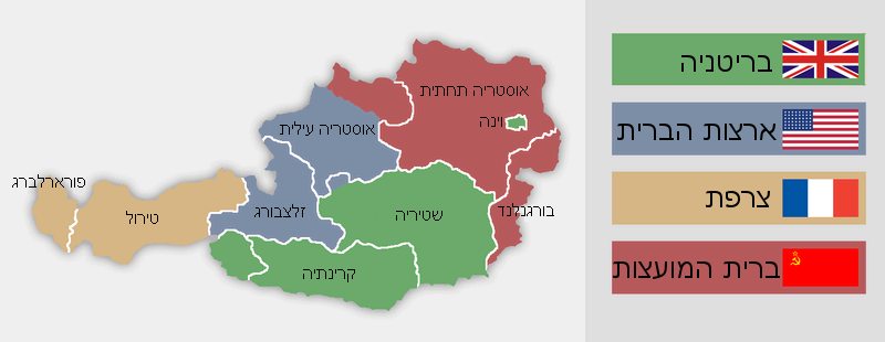 Austria 1945-55 HE